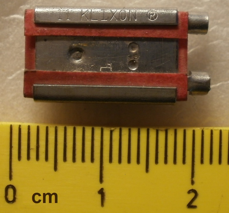 Klixon from a vacuum cleaner motor with crimp contacts for signalling purposes. It is there in close thermal and electrical contact with the brushes and senses their overtemperature.